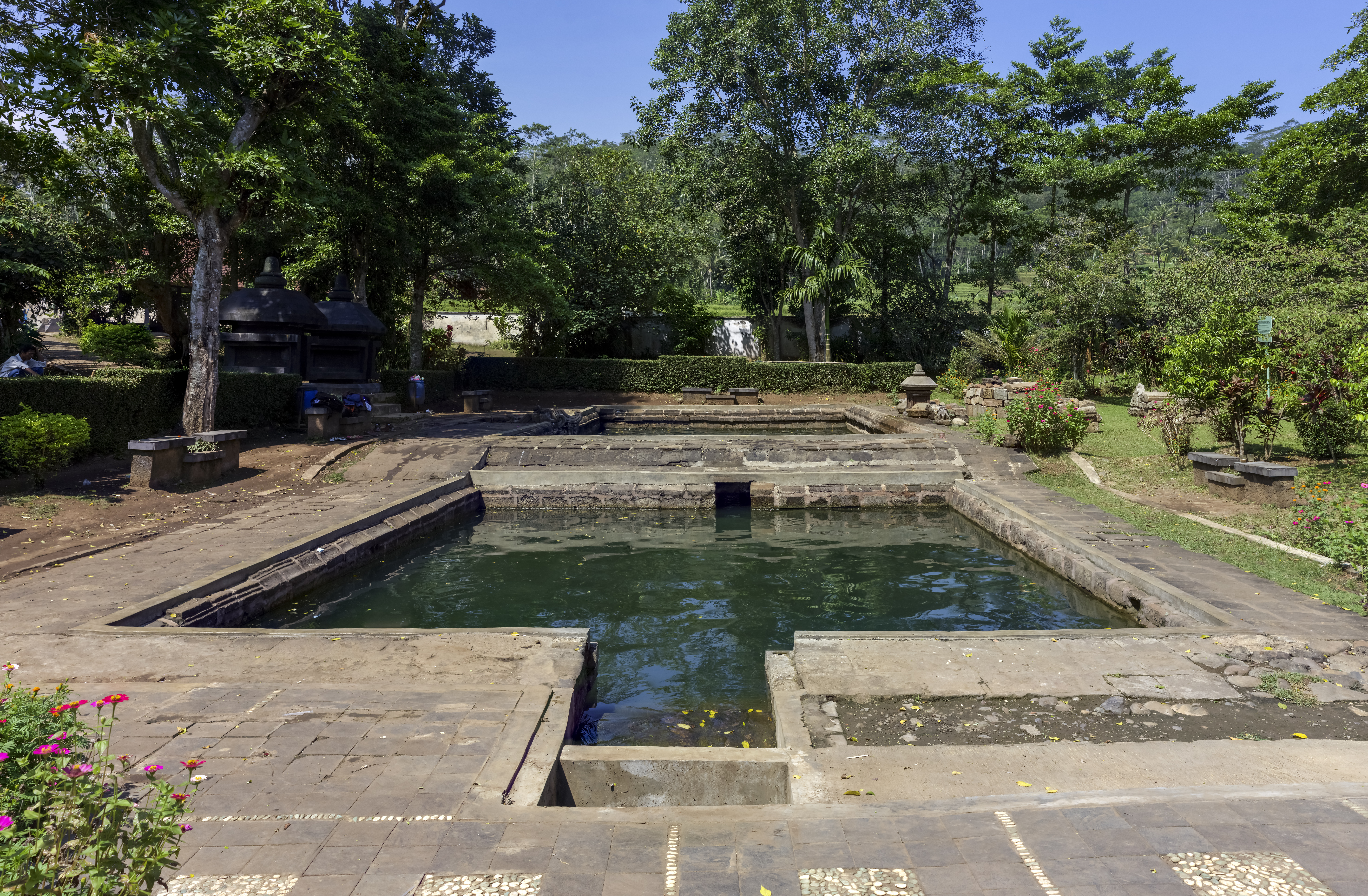 Umbul Temple, bathing area, 2014-06-20